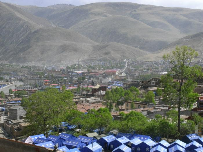 Downtown Gyêgu after the earthquake: The largest part of the city was destroyed; although most of the newer buildings did not collapse, many of them have to be torn down for security reasons.